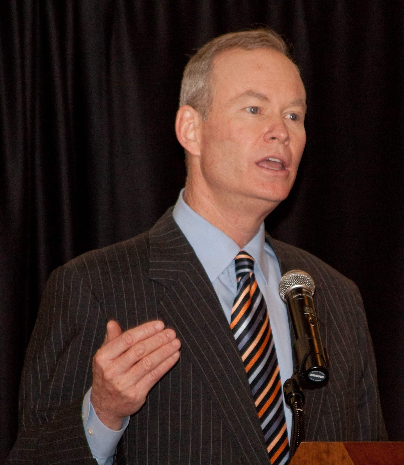 Photo of Oklahoma City, Oklahoma mayor Mick Cornett.